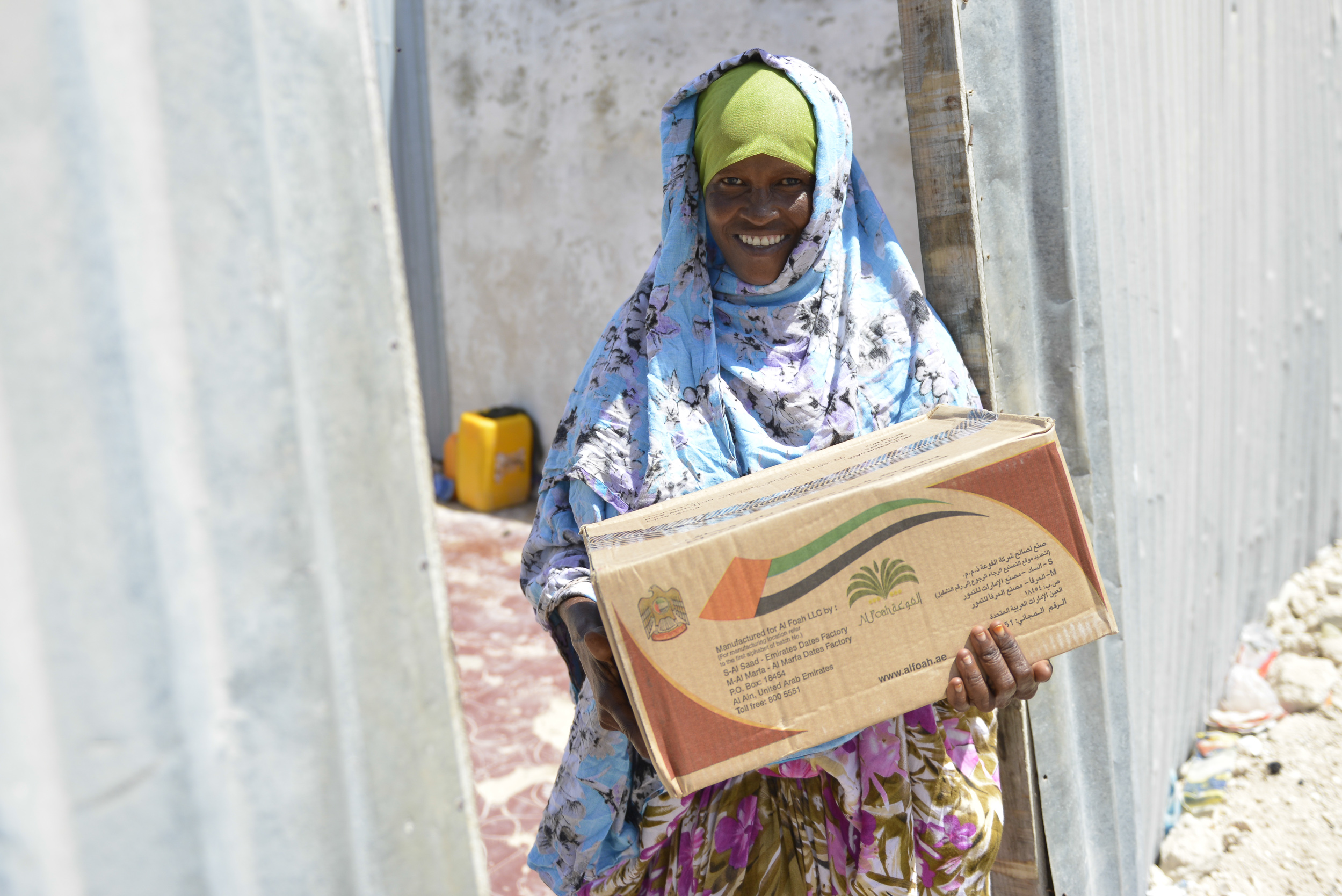 A lady smiles and holds a box of dates given to her during a distribution of dates to less fortunate families around Mogadishu by the AMISOM Gender Unit on 3rd July 2014. The dates were given to the Unit by the Embassy of the United Arab Emirates. AMISOM Photo / David Mutua